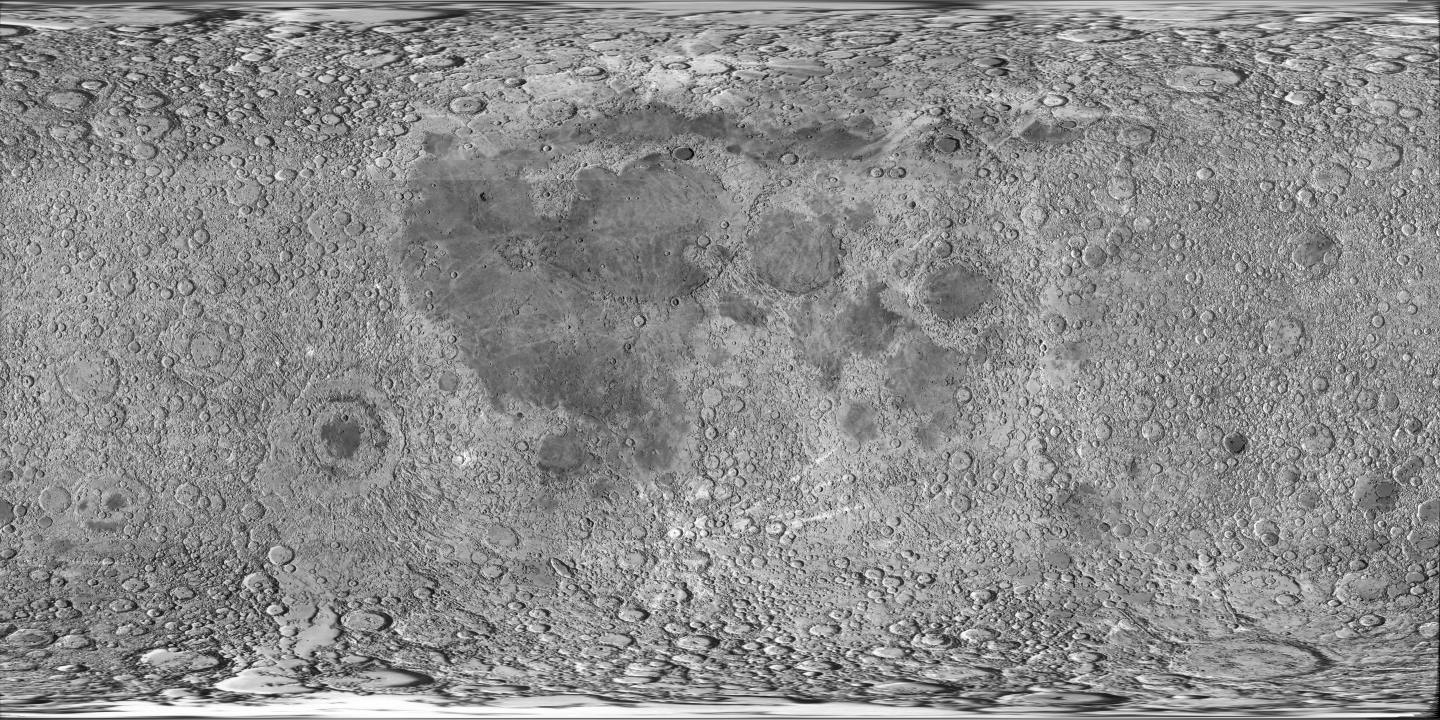 cylindrical map projection of the Moon